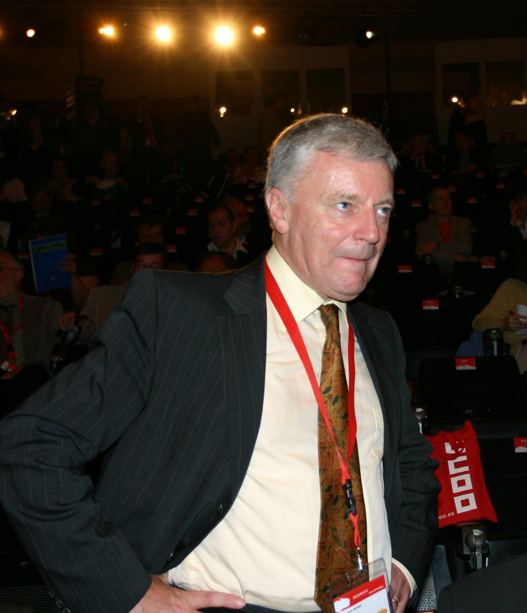 John Monks, General Secretary of ETUC